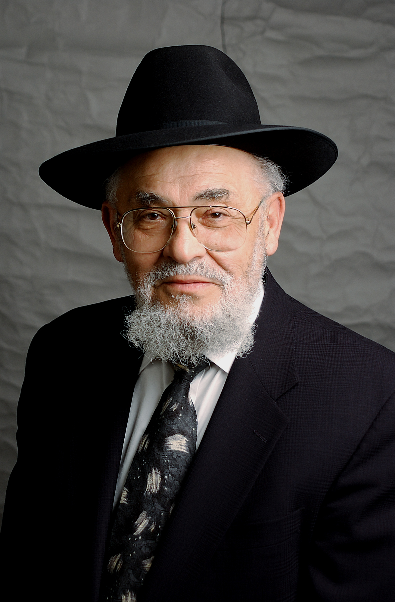 Courtesy of Yeshiva University